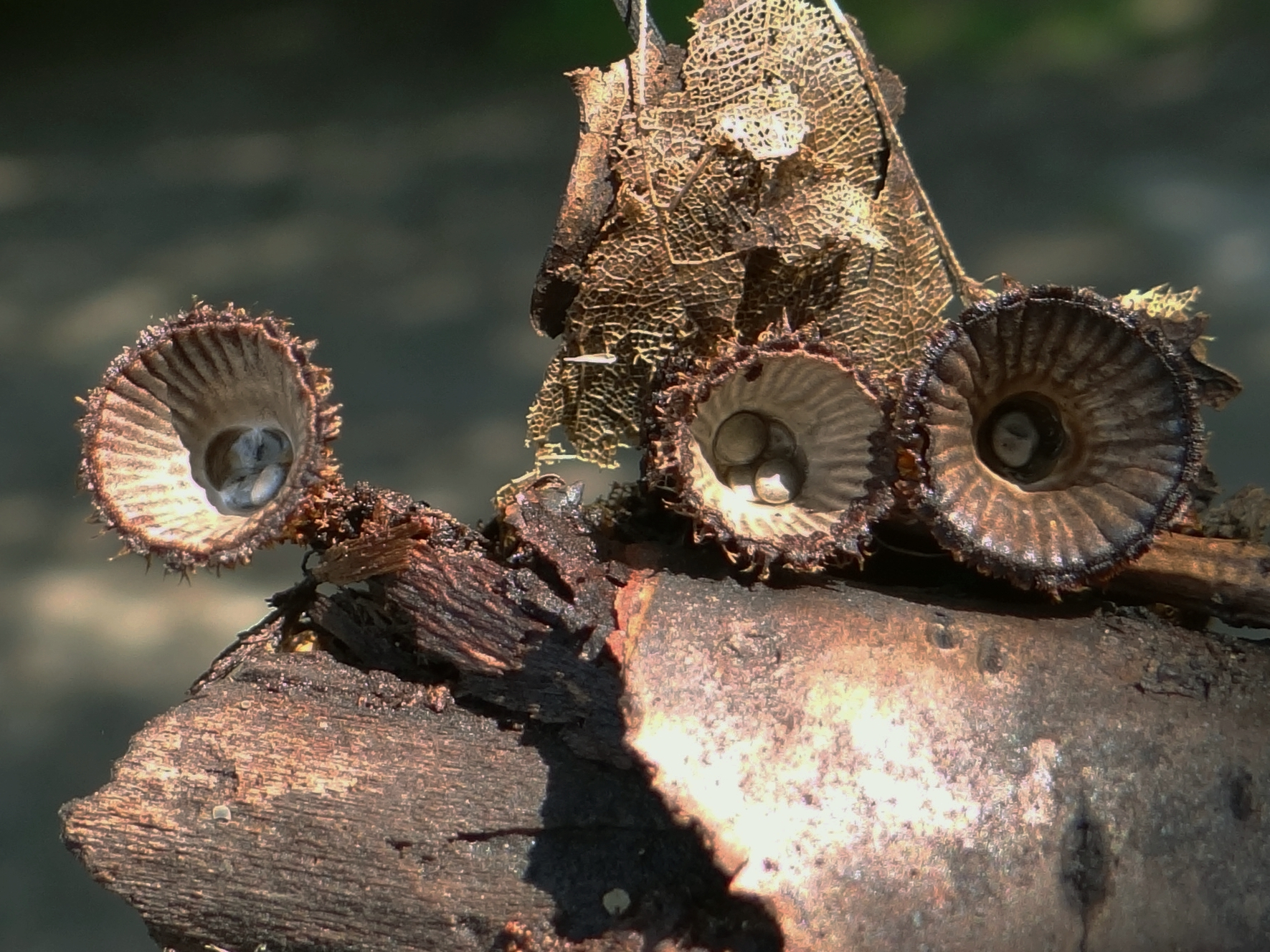 Cyathus striatus